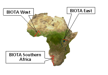 Transects of the BIOTA Africa Project